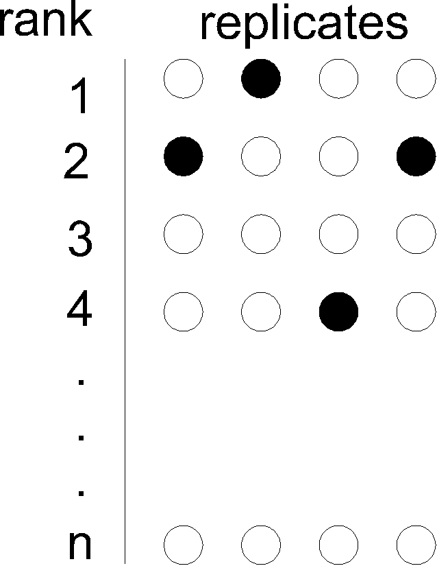 Rank product example